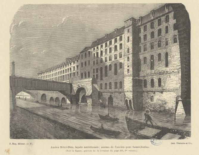 Southern side (on left bank) of the former hospital of Hôtel-Dieu in Paris, France. With the abutment of the former bride pont Saint-Charles and the wooden gateway which replaced the bridge.